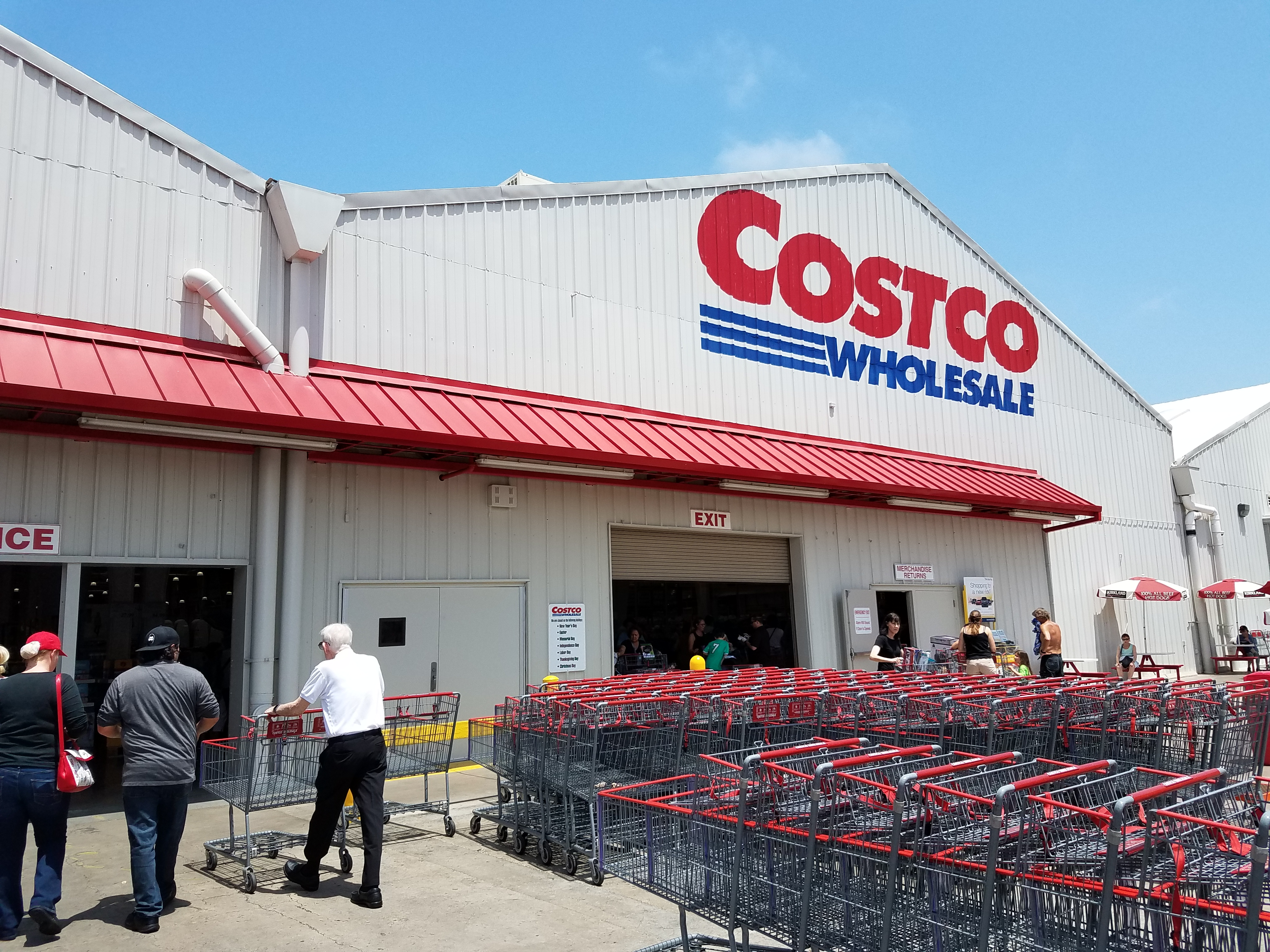 First PriceClub location, later converted into a Costco, located in the Bay Ho neighborhood of San Diego.